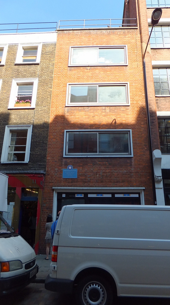 Brian Epstein worked here 1963-64 (NEMS), 13 Monmouth Street, London WC2. "kindly sent to us by Charles Watson" References The Beatles Fan Club, 13 Monmouth Street, London WC2H 9DA. The Beatles Mobile Phone Guide. "This was the head quarter of Brian Epstein's NEMS (North End Music Stores) business, before he moved the offices to 5-6 Argyll Street." Monmouth Street, London, England, the United Kingdom. Google Maps.